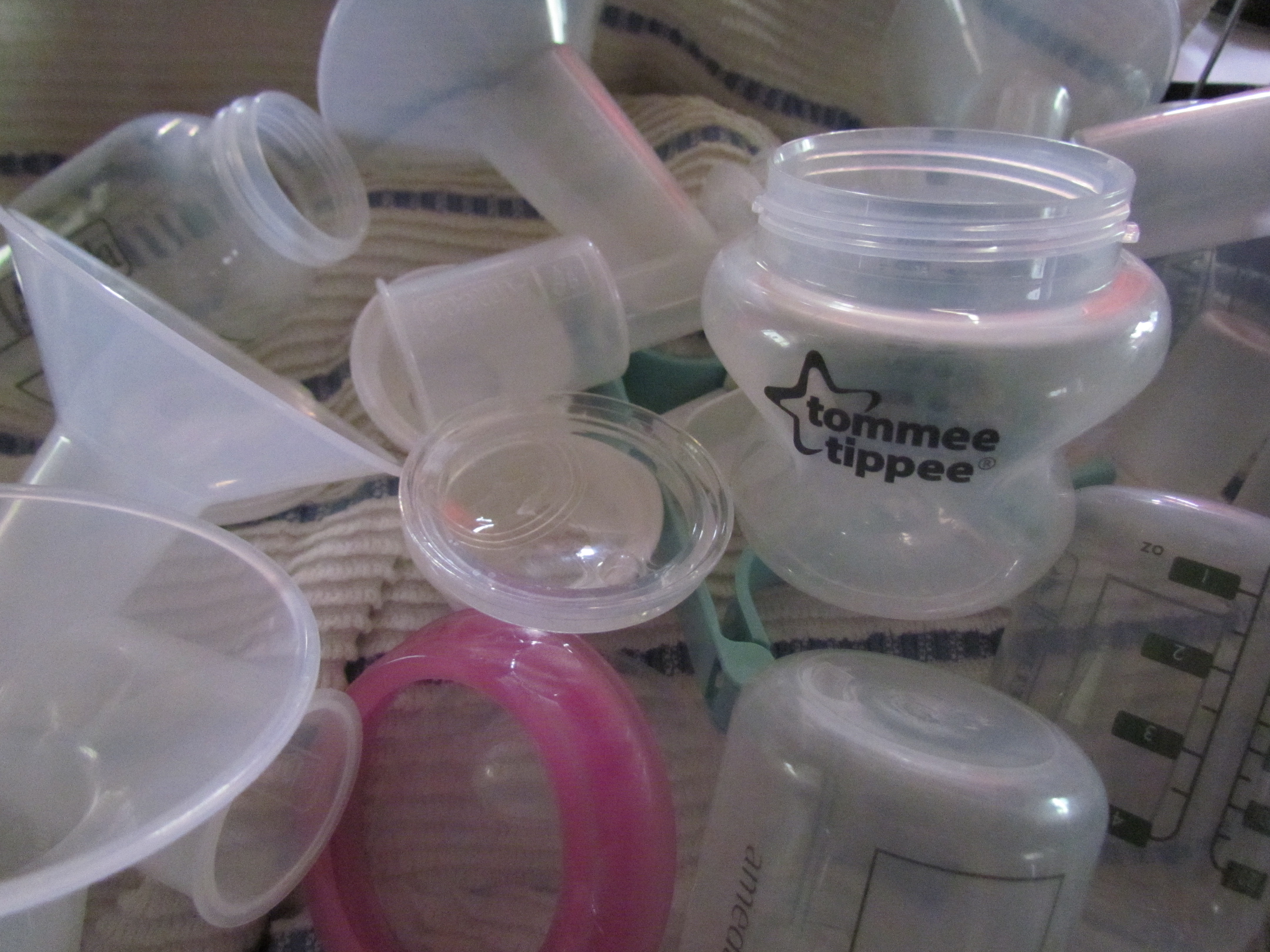 Parts to an Ameda breast pump and a Tommee Tippee sippy cup